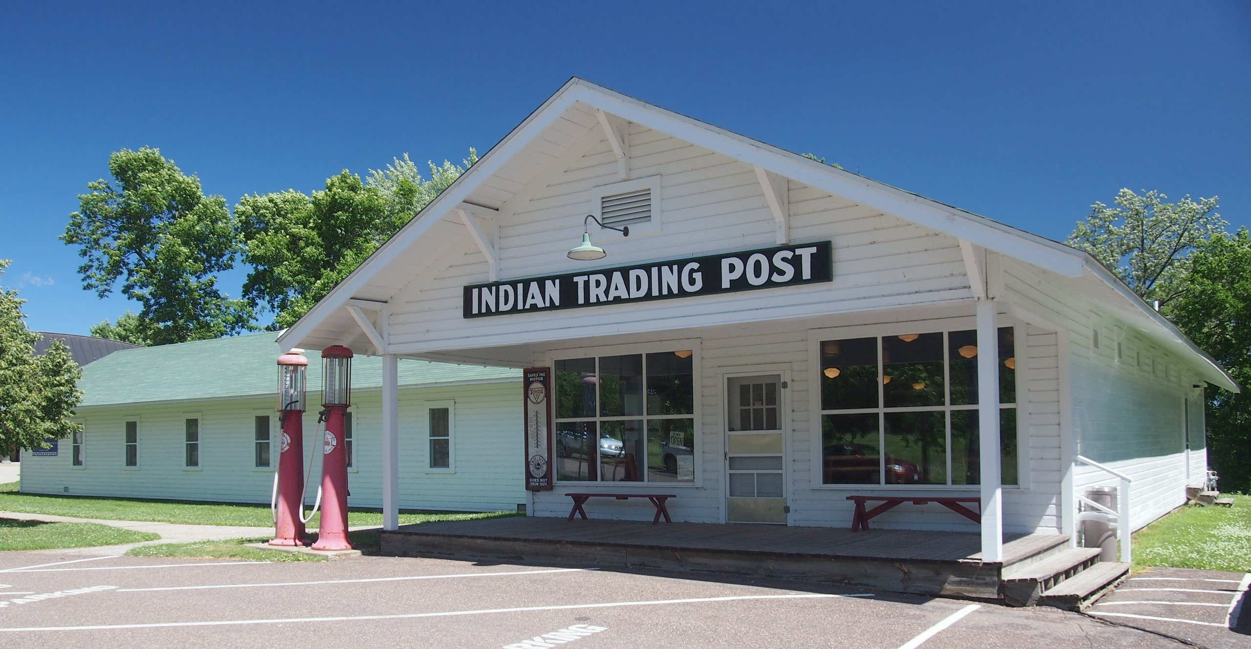 Indian Trading Post (now the gift shop of the Mille Lacs Indian Museum), 43411 Oodena Dr, Vineland, Minnesota, USA. Viewed from the west.